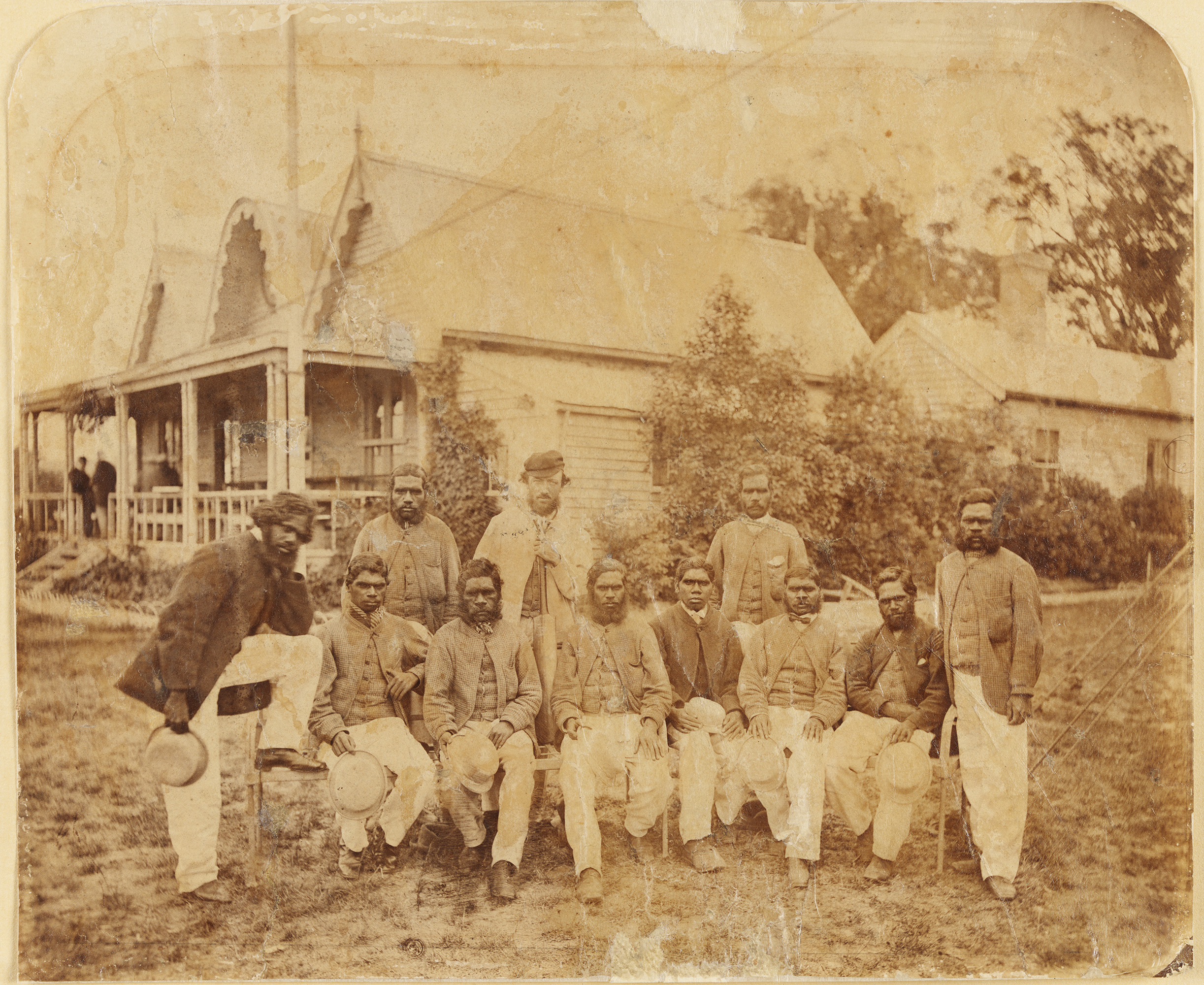 Aboriginal cricket team that played the "Boxing Day match" between the Melbourne Cricket Club at the MCG. Fltr (standing): King Cole, Tarpot, Tom Wills, Johnny Mullagh, Dick-a-Dick; (seated): Jellico, Peter, Red Cap, Harry Rose, Bullocky, Cuzens.Some of these players were members of the squad which toured England in 1868.